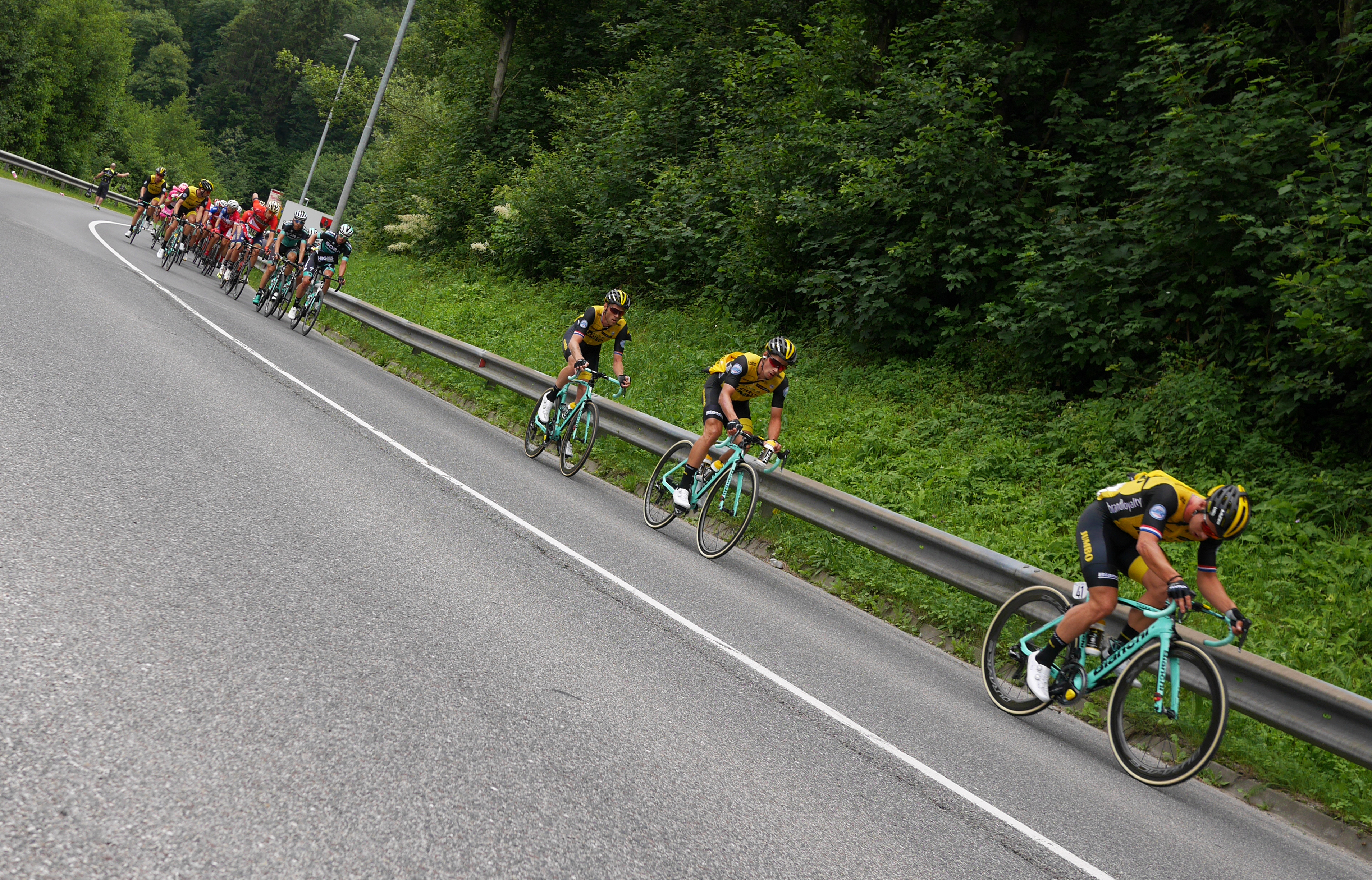 3rd stage of Tour of Slovenia 2018 on Trojane hill with Team Lotto Jumbo (NL) in the front. Primož Roglič is second from the right side with Dylan Groenewegen far right.